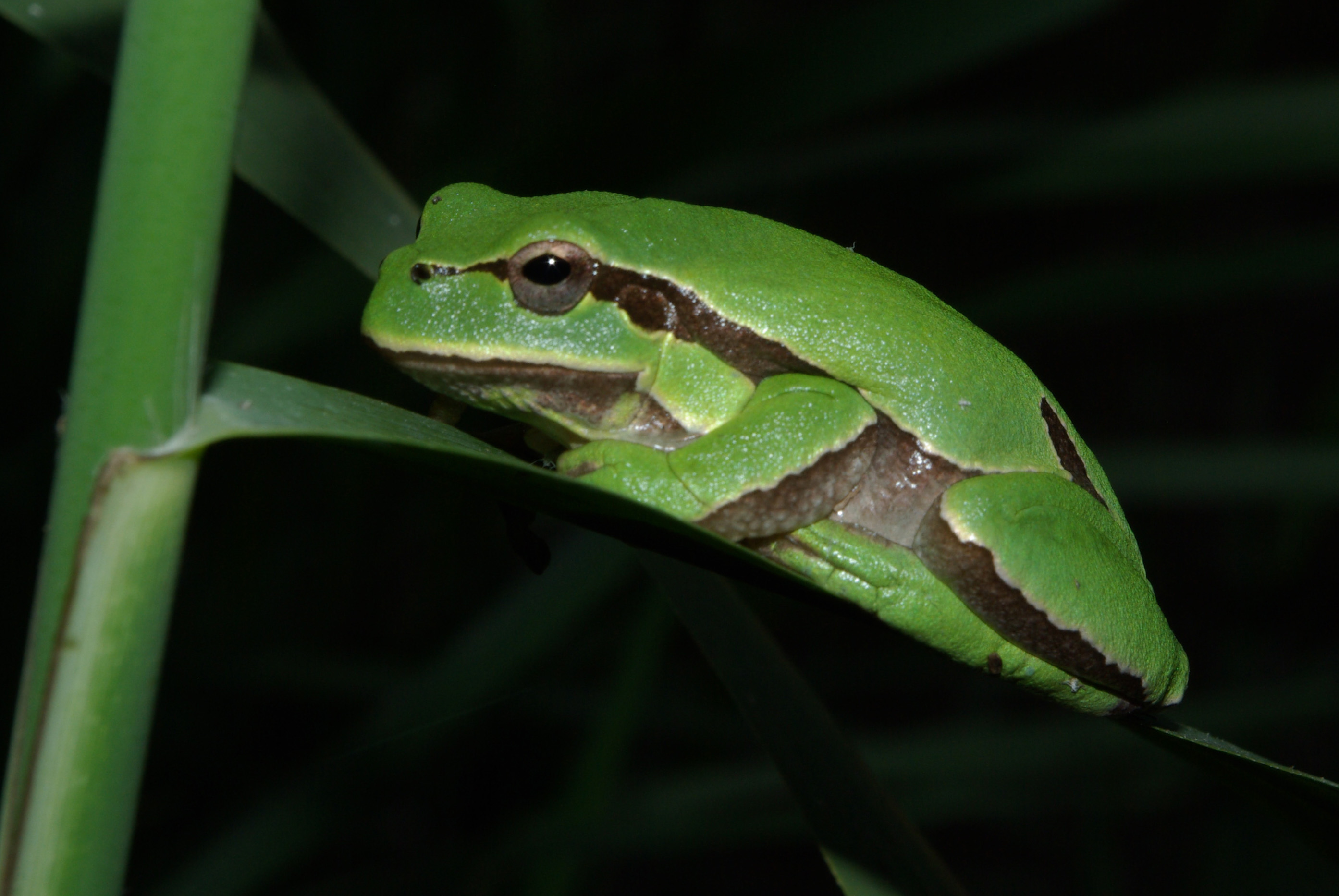 Iberian treefrog Hyla molleri on common reed (Phragmites australis), Burgos (Spain).